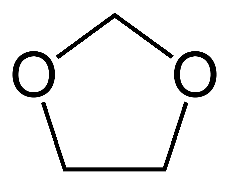 Skeletal formula of 1,3-dioxolane